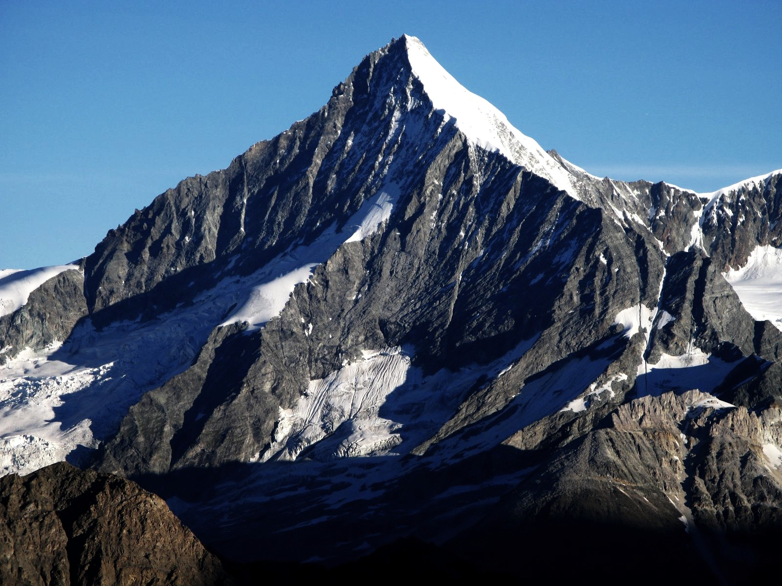 Weisshorn, Valais